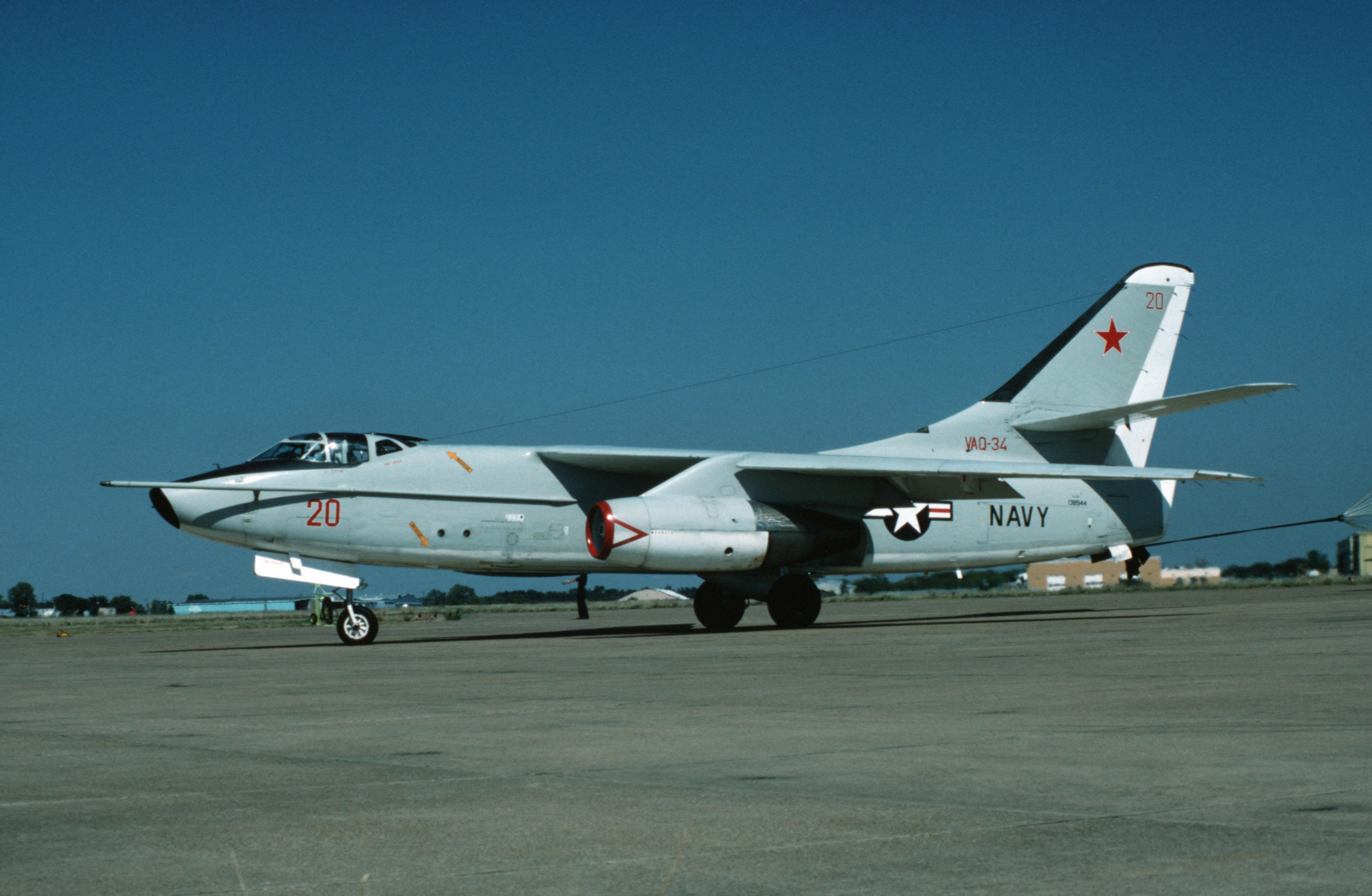 A U.S. Navy Douglas EA-3B Skywarrior from tactical electronic warfare squadron VAQ-34 Electronic Horsemen at the Naval Air Station Dallas, Texas (USA), on 1 February 1988.